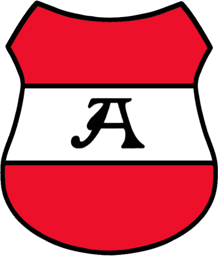 Coat of Arms of the house of Althanns